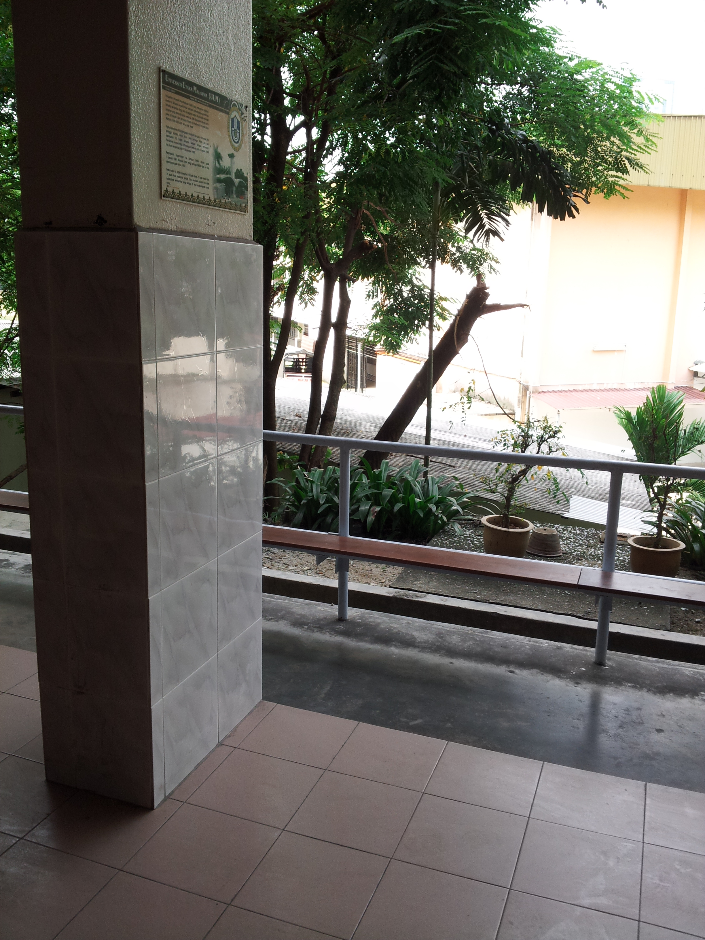 Canteen 2 - After 2013 renovations (Note the new floor and pillar tiles, and wooden seats on benches)